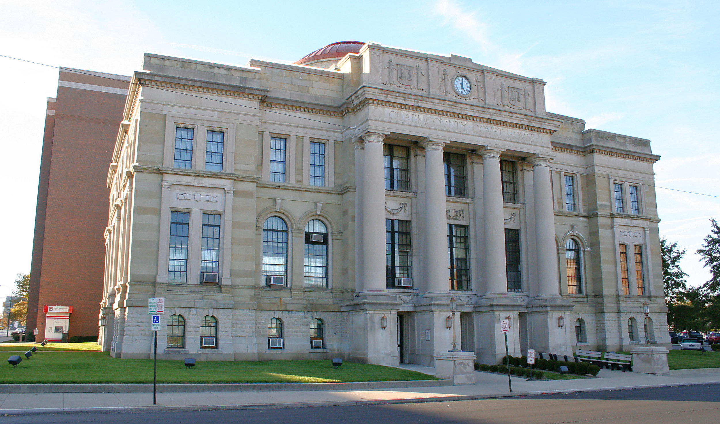 Clark County courthouse in Springfield, Ohio. Photo shot by Derek Jensen (Tysto), 2005-October-30